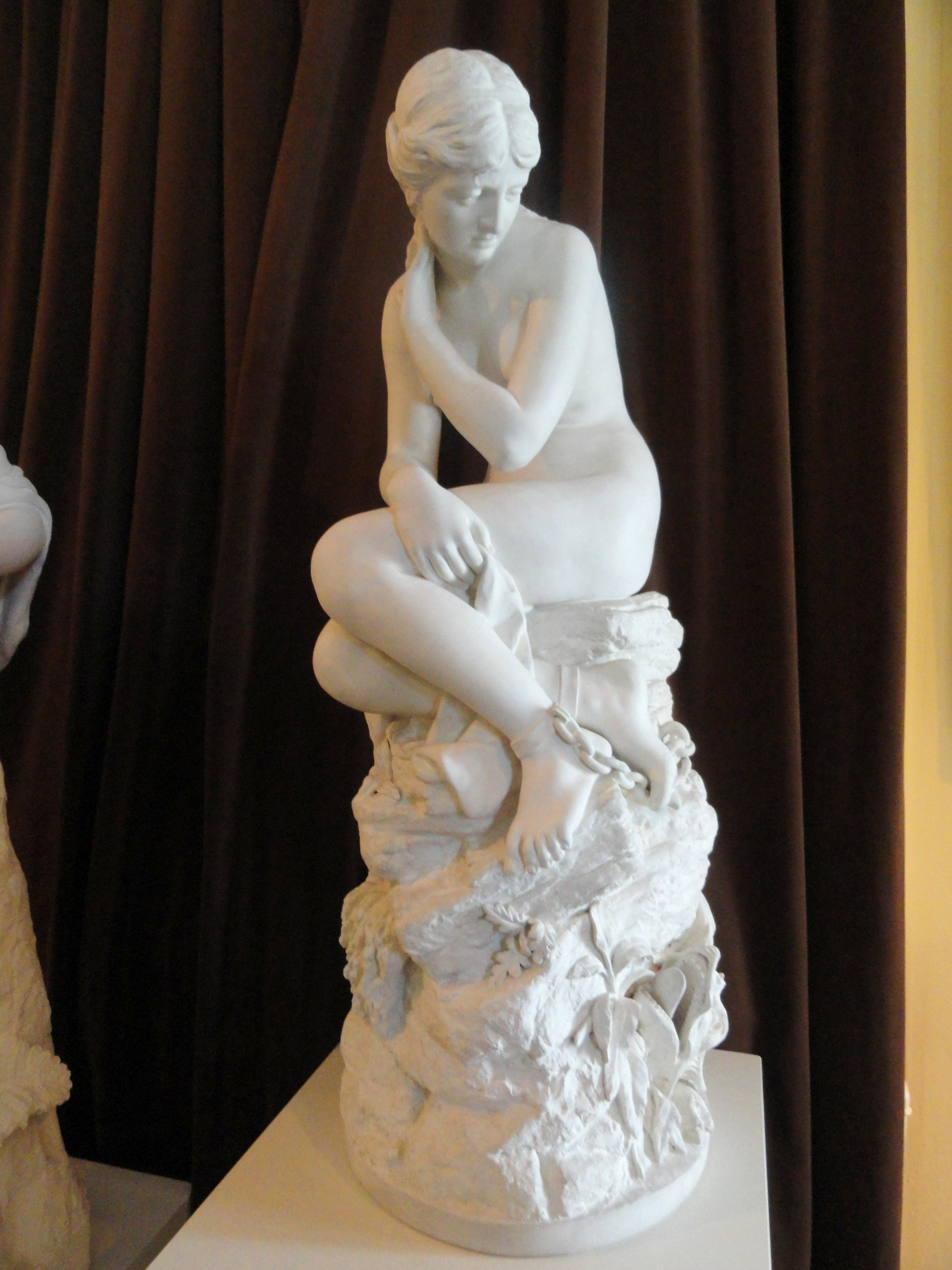 Sculpture in the Cygnaeus Gallery, Helsinki, Finland. Artwork is in the public domain because the artist died more than 70 years ago.